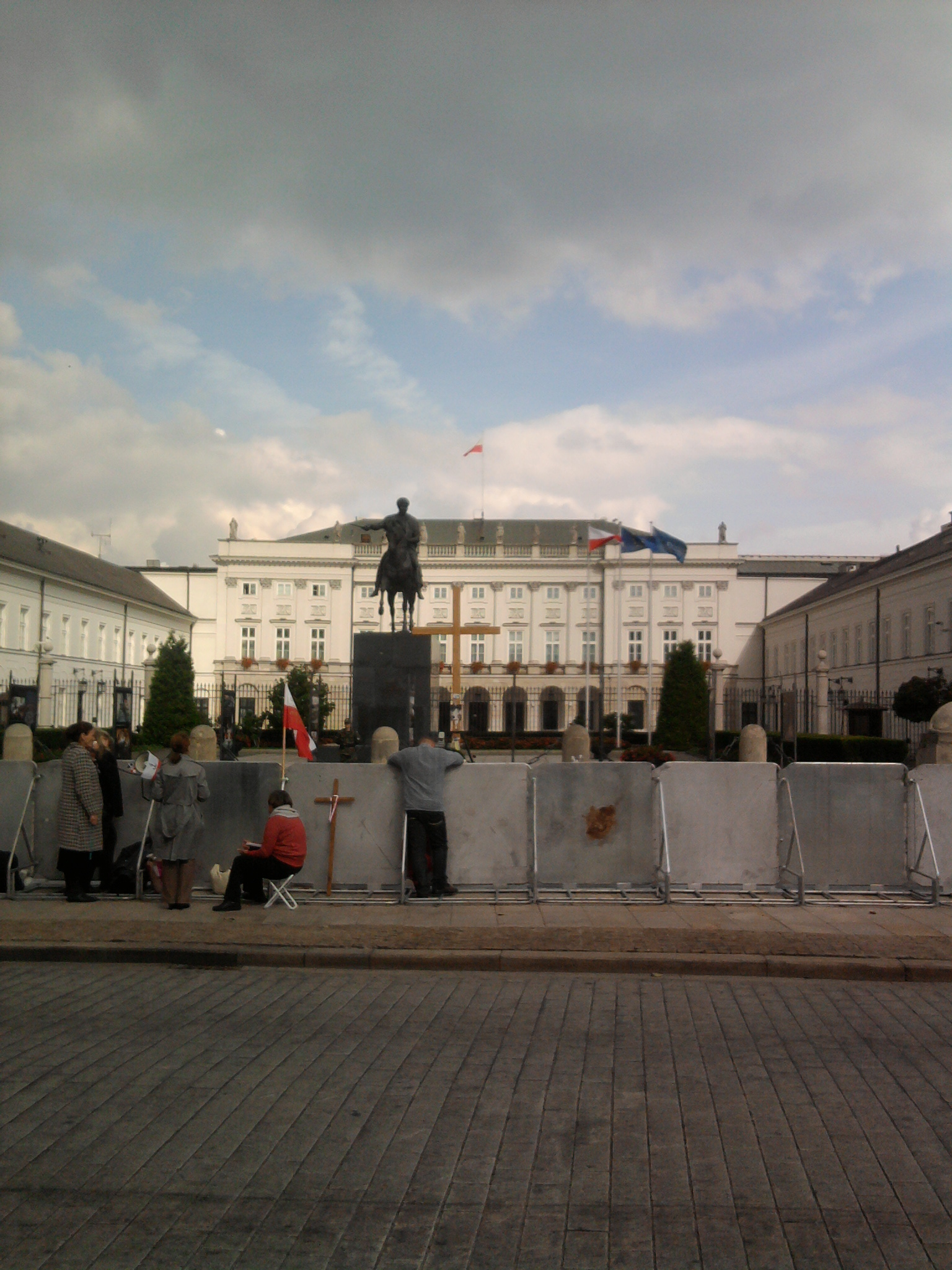 Cross in front of the Presidential Palace in Warsaw after Smolensk plane crash.